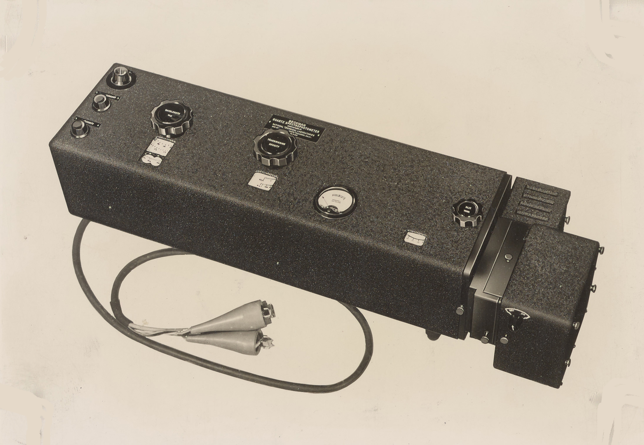 Original photograph used for Figure 6. Quartz photoelectric spectrophotometer from Original photograph used for Figure 6. Quartz photoelectric spectrophotometer from Cary, H. H.; Beckman, Arnold O. (1941). "A Quartz Photoelectric Spectrophotometer". Journal of the Optical Society of America. 31 (11): p. 687. No copyright renewal for the journal (first renewal appears for 1951). No copyright renewal for the paper. No copyright renewal for the photograph (checked 1968, 1969).